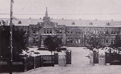 Keijo(Seoul) Normal School